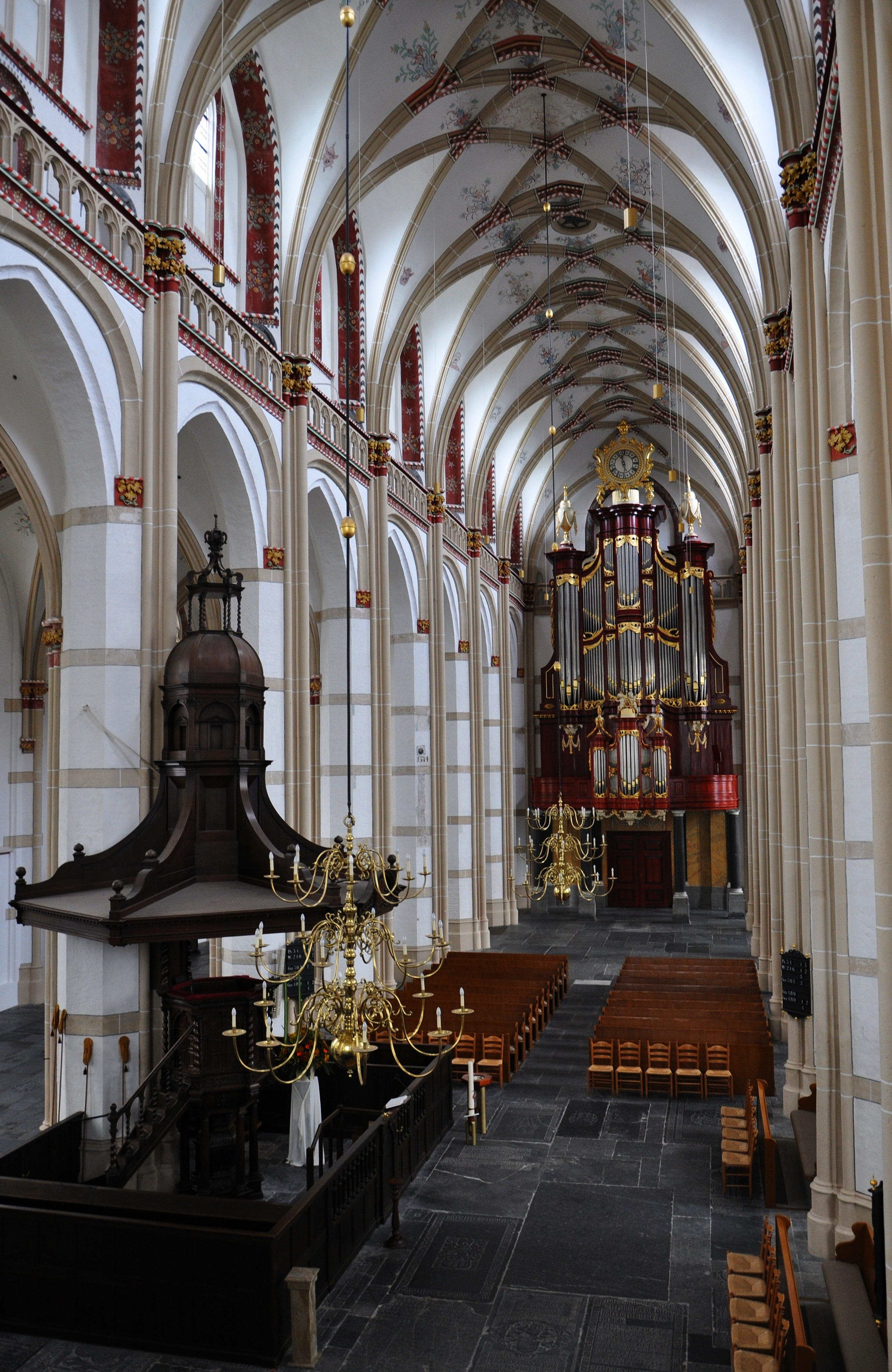 Interior of St. Martin's Church at Zaltbommel (the Netherlands)